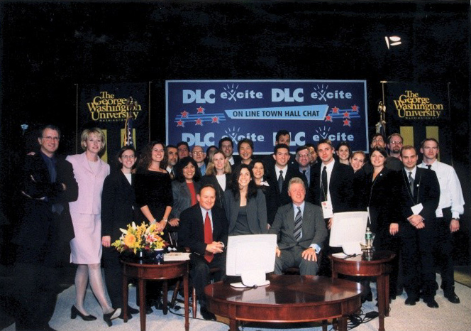 Group shot of crew and President Clinton at Town Hall with President Clinton at George Washington University in 1999.